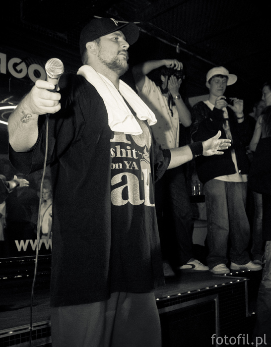 Polish rapper Waldemar Kasta, 2010